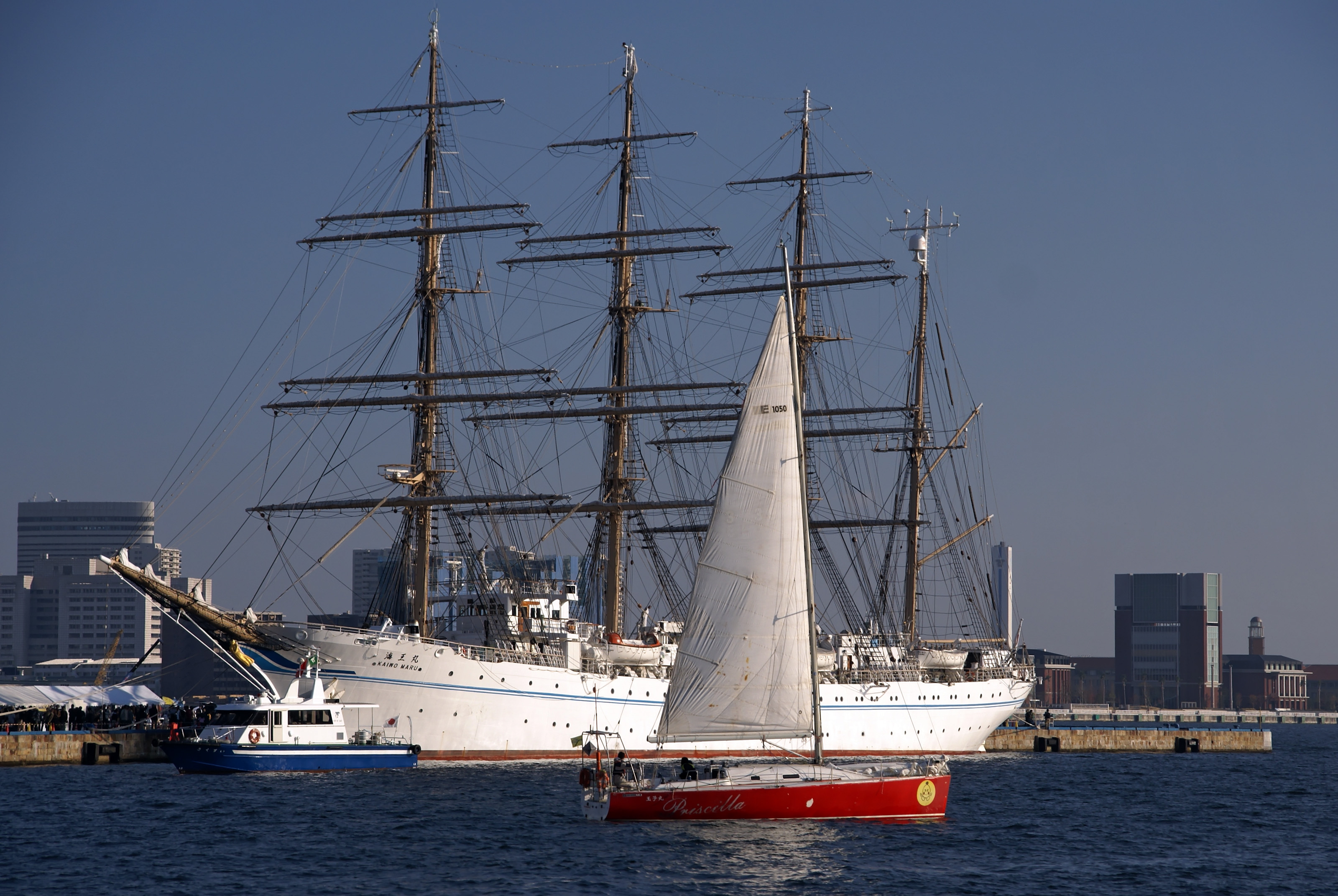 Kaiomaru II anchors at "Shinko daiichi-tottei" of the Kobe harbor ( Kobe, Hyogo prefecture, Japan)